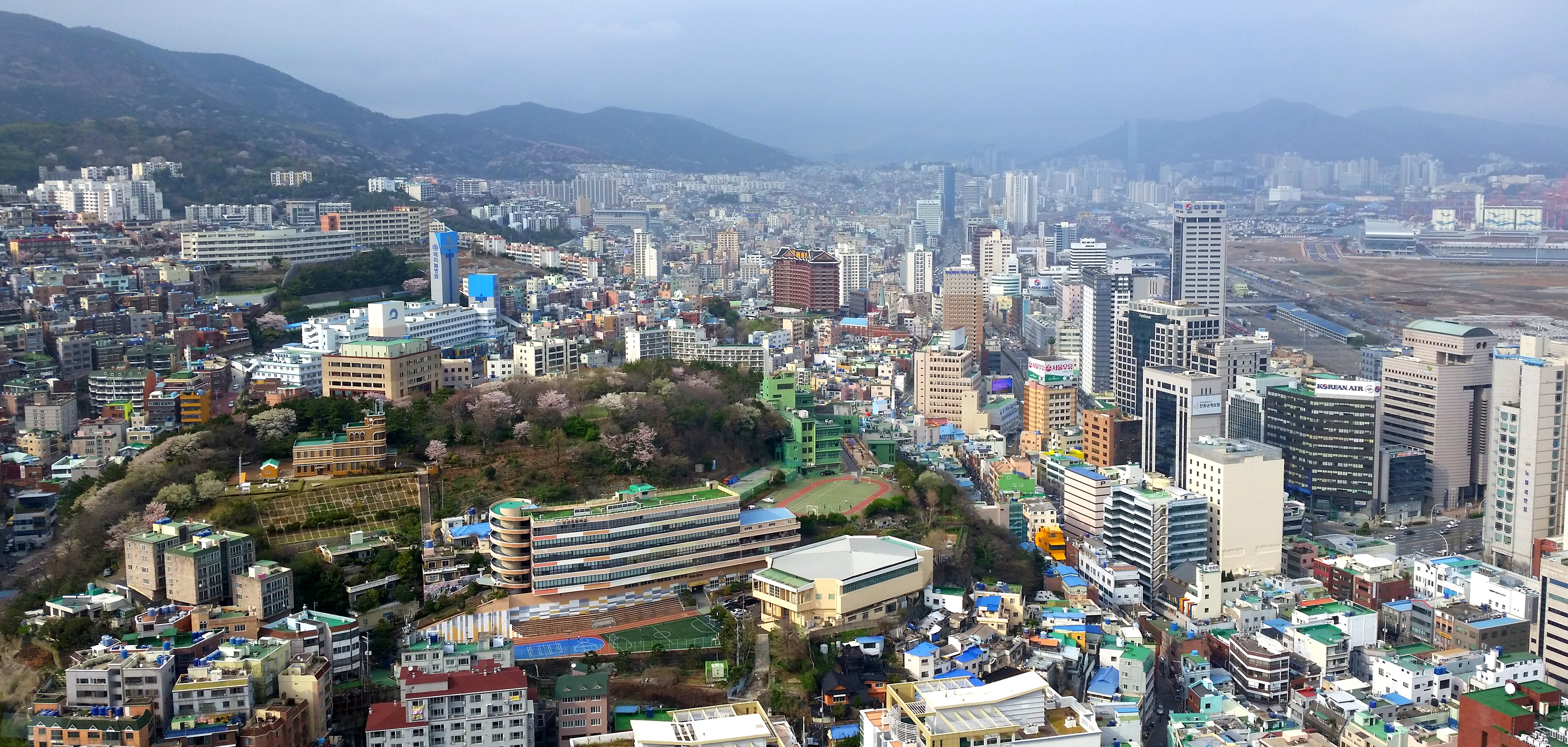 View of Jung District and beyond from Busan Tower. Busan, South Korea. Photograph from Flickr; author cezzie901; license of CC BY 2.0. Edited from original photograph (lighting, cropping, etc.).